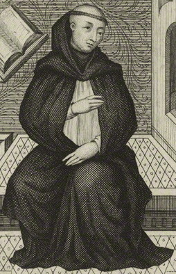 Nicholas Trevet after Unknown artist line engraving, perhaps 18th century 6 in. x 4 1/8 in. (151 mm x 105 mm) paper size Given by the daughter of compiler William Fleming MD, Mary Elizabeth Stopford (née Fleming), 1931 Reference Collection NPG D23990